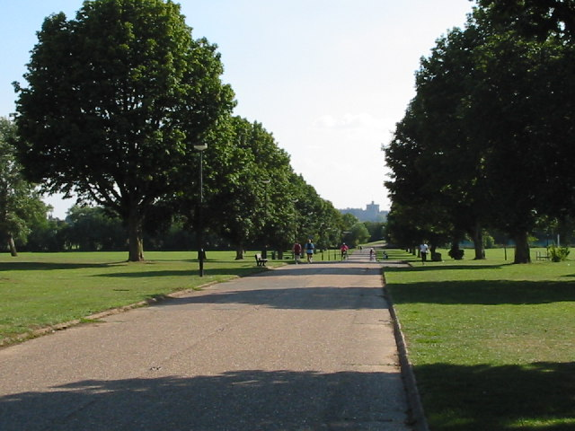 Upton Court Park, SloughIn the distance may be seen the silhouette of the Round Tower, Windsor Castle.